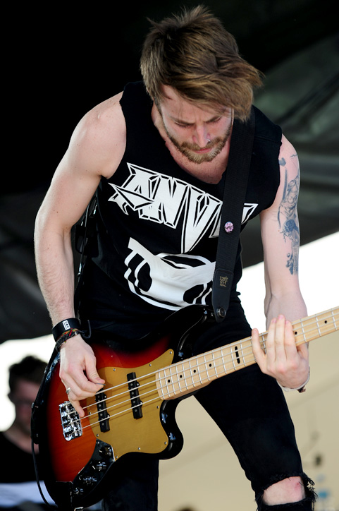 Paramore @ Steel Blue Oval (1/3/2010)